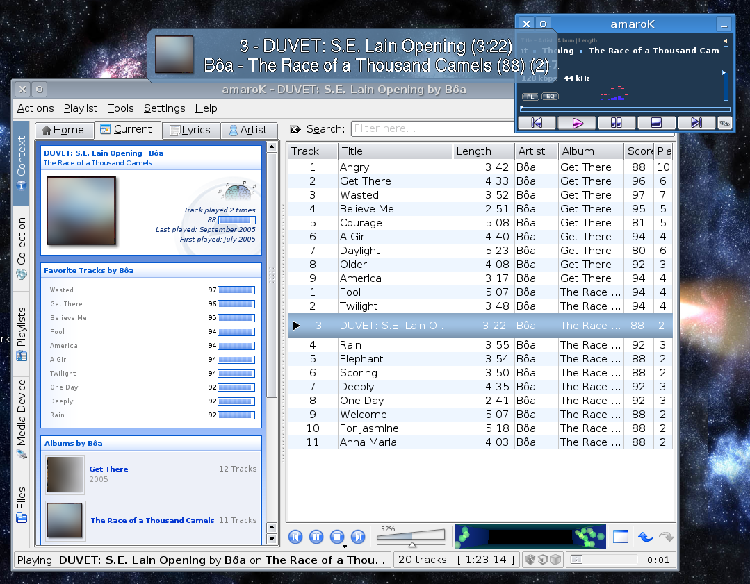 A screenshot of Amarok 1.4.5